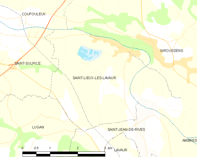 Map of French municipality Saint-Lieux-lès-Lavaur